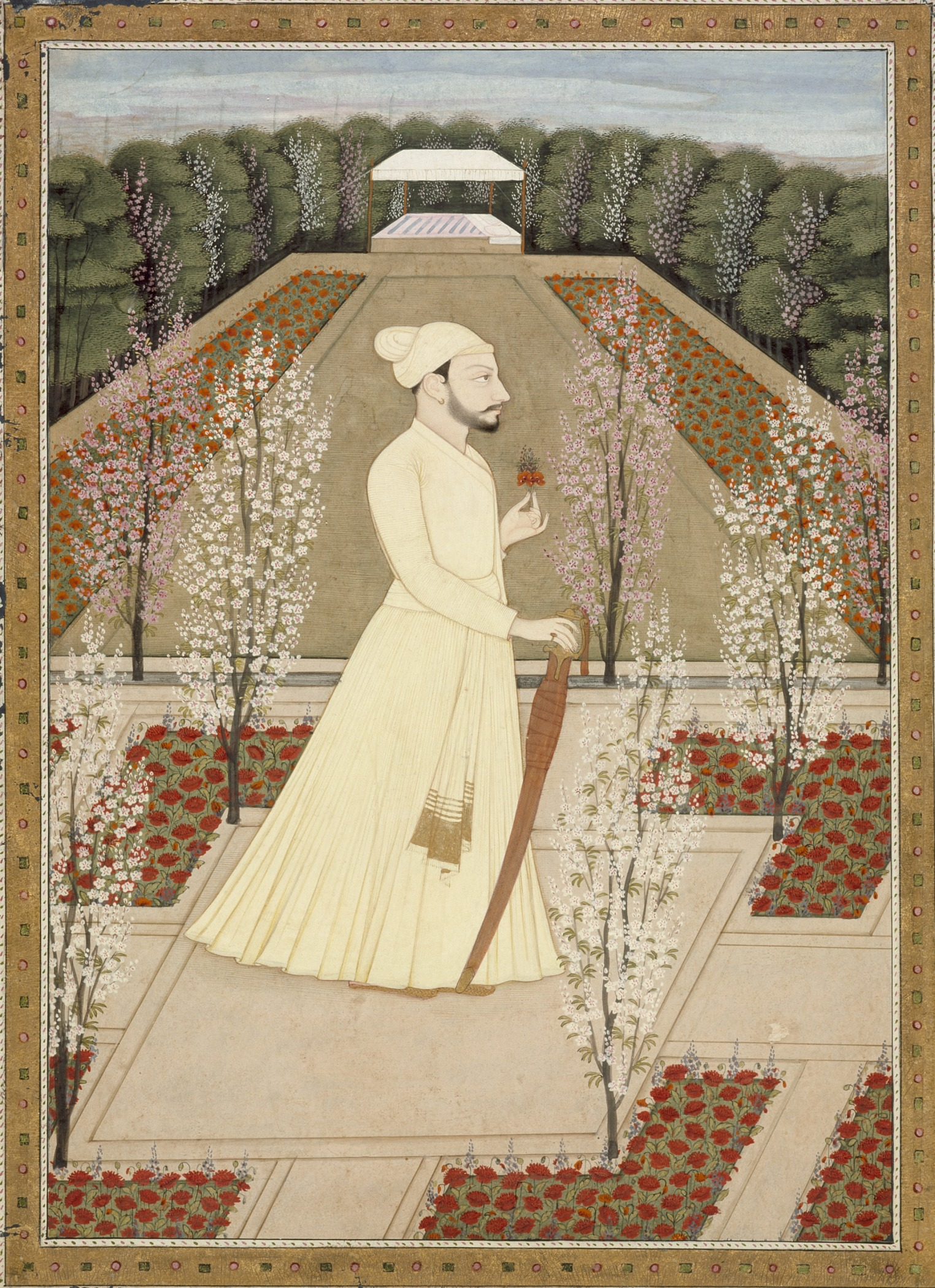 India, Himachal Pradesh, Kangra, circa 1765-1770 Drawings; watercolors Opaque watercolor and gold on paper Gift of Michael and Diandra Douglas (M.80.223.1) South and Southeast Asian Art